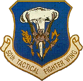 Emblem of the 50th Tactical Fighter Wing (1956-1992), a wing of the United States Air Force. The emblem represents the wing's nuclear aircraft mission. Changes in heraldry rules in 1992 led to the 50th Space Wing adopting the 50th Fighter Group emblem used in World War II.